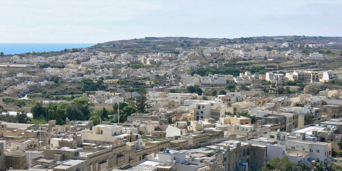 The village of Kerċem seen from the Citadel